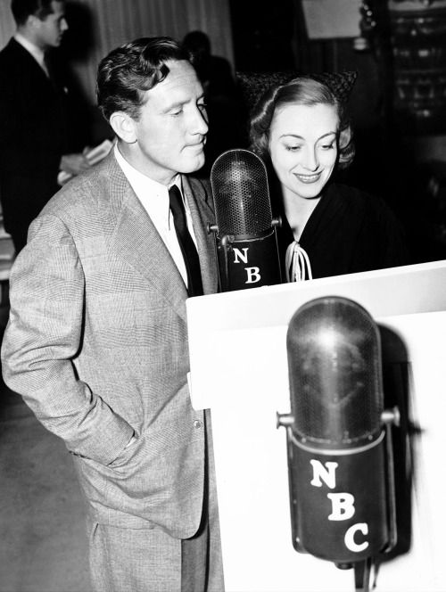 Spencer Tracy & Joan Crawford at Lux Radio Theatre in 1938